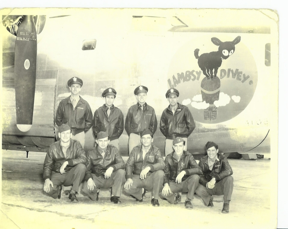 Lambsy Divey was a B-24J S/N 44-40170 Crew Names from top left: Cotnoir (P), Liebfeld (CP), Baker (N), Mercado (B), bottom left: Carr (E), Perhach (RO), Blaylock (G), Bouchard (G), Counts (G). This crew flew the plane across the Atlantic and flew her first several missions. Other crews flew her from then on. The Lambsy Divey was hit by flak and exploded on 9/12/1944 with loss of all the Robert Sparrow crew except gunner Henry Morris who was blown free and able to open his chute.